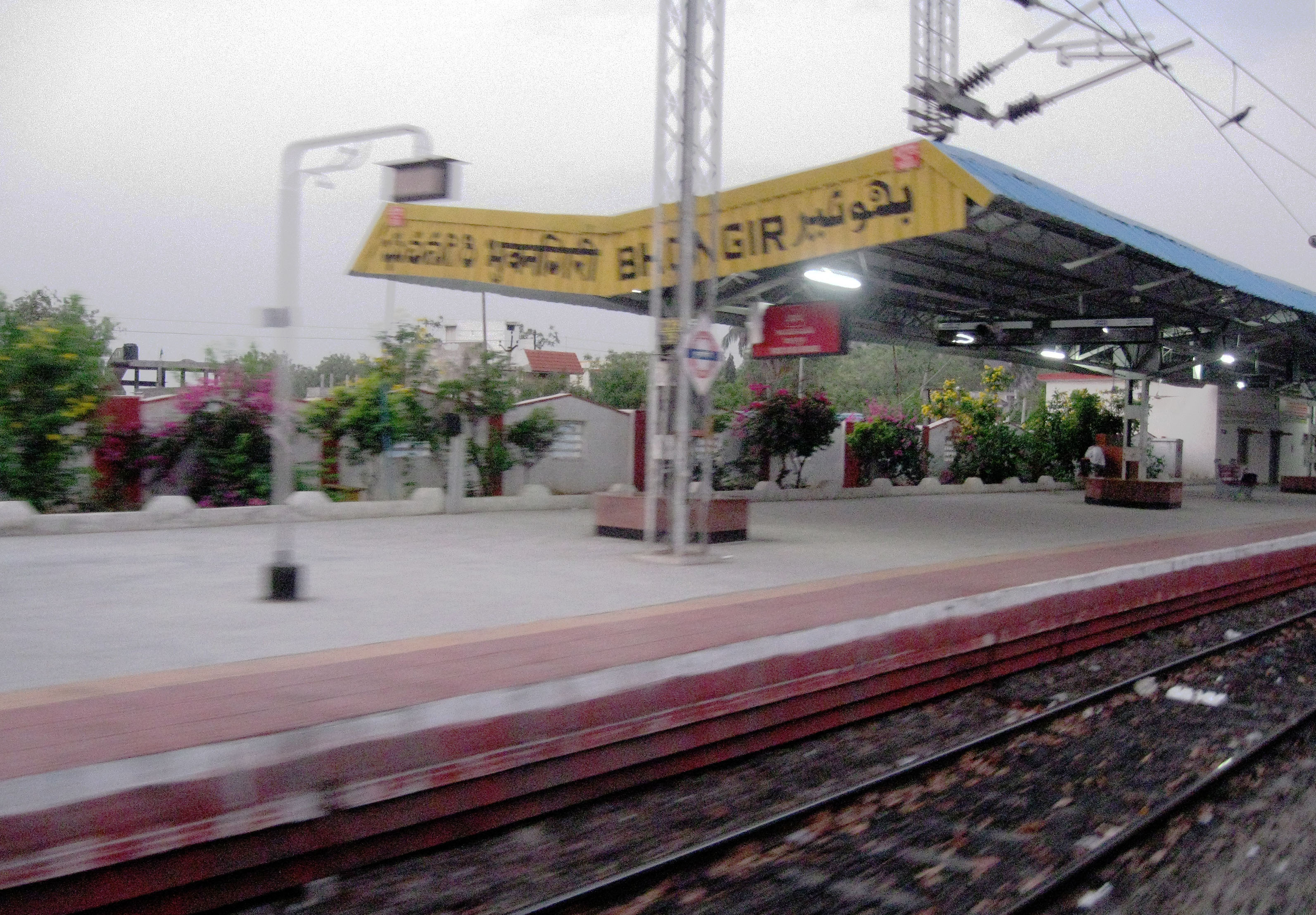 Platform No. 1 of Bhongir Railway Station